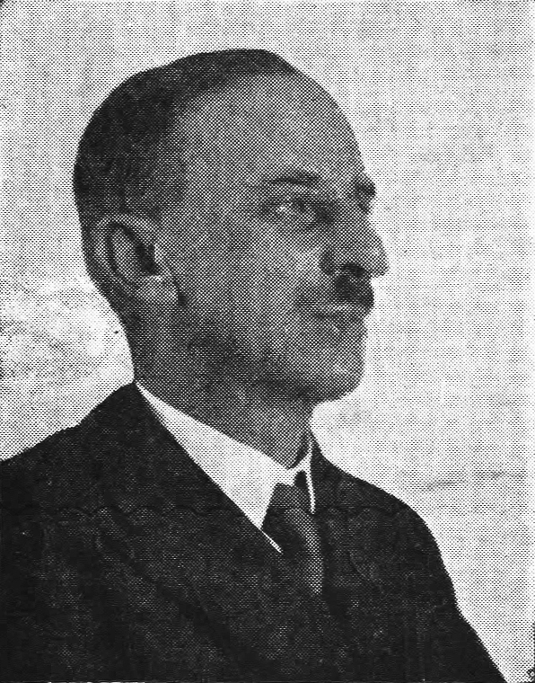 S E Winbolt by Lafayette